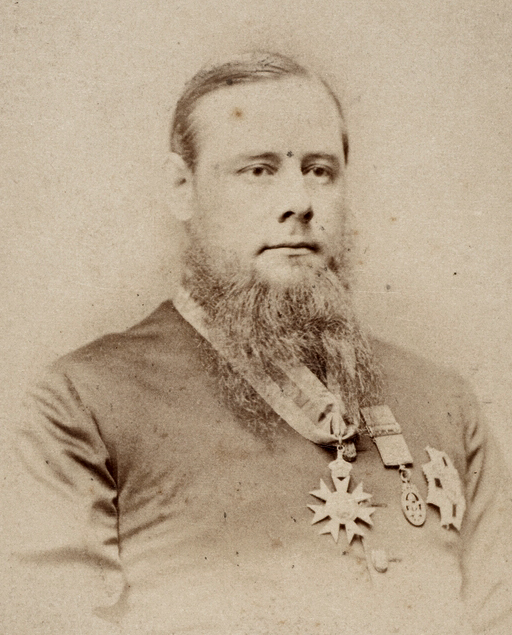 Sir George Verdon, politician and banker, 1870-1879, by Newman, late Montagu Scott, carte de visit print, State Library of New South Wales, P1/1873